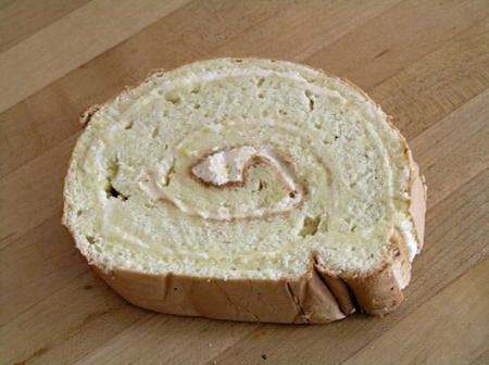 Chinese swiss roll Chinese bakery